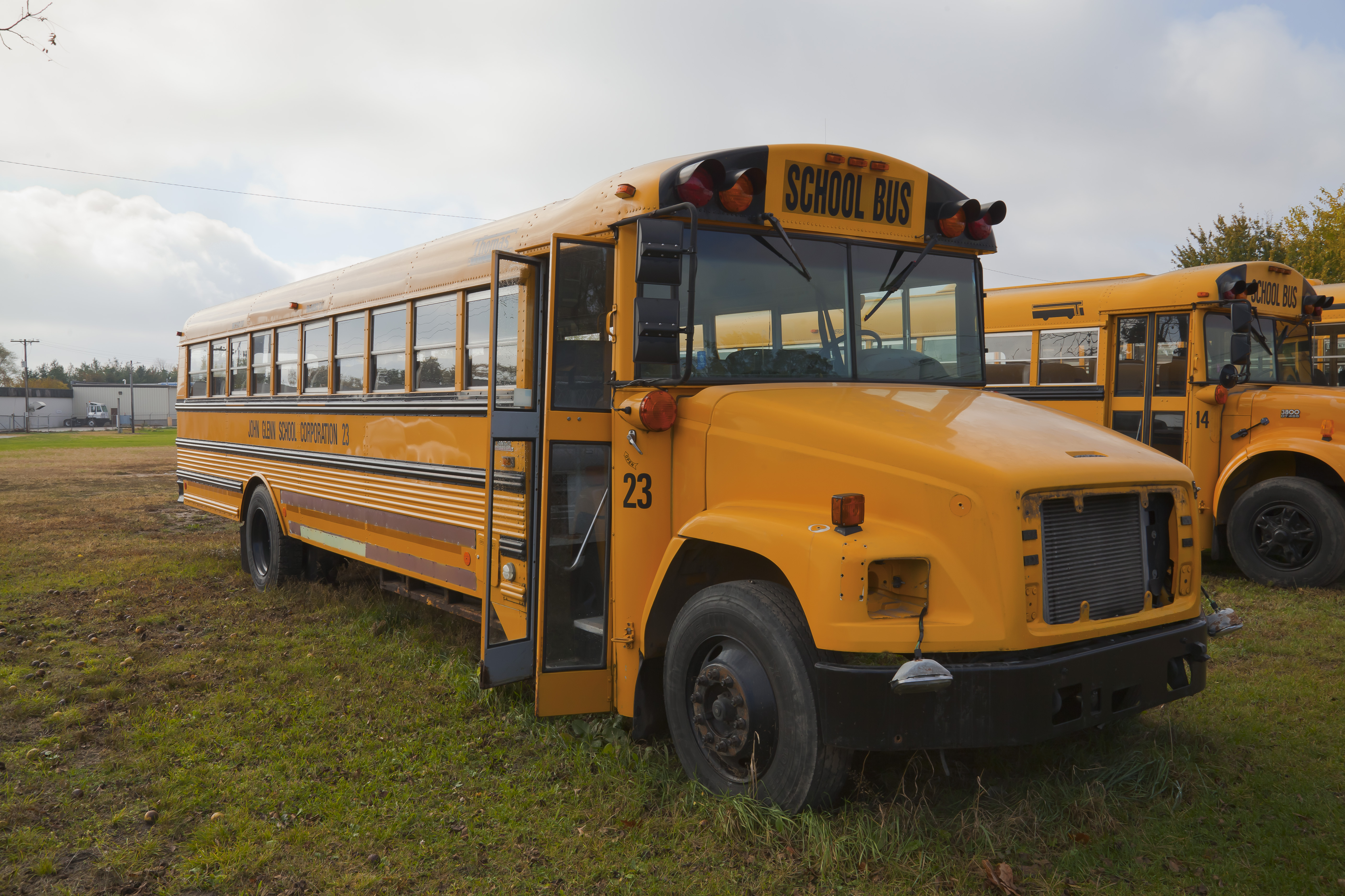 School bus, Walker, Indiana, USA